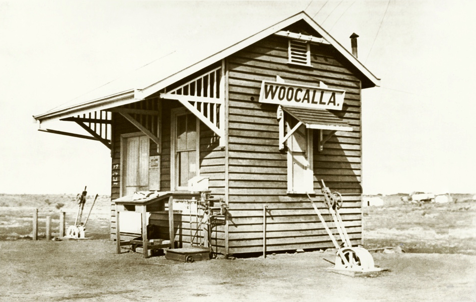 A wooden station building at Woocalla. It was typical of most of the approximately 50 station buildings installed when the Trans-Australian Railway was built in 1917. They were constructed at Port Augusta, South Australia, and transported, assembled, by rail to their locality.